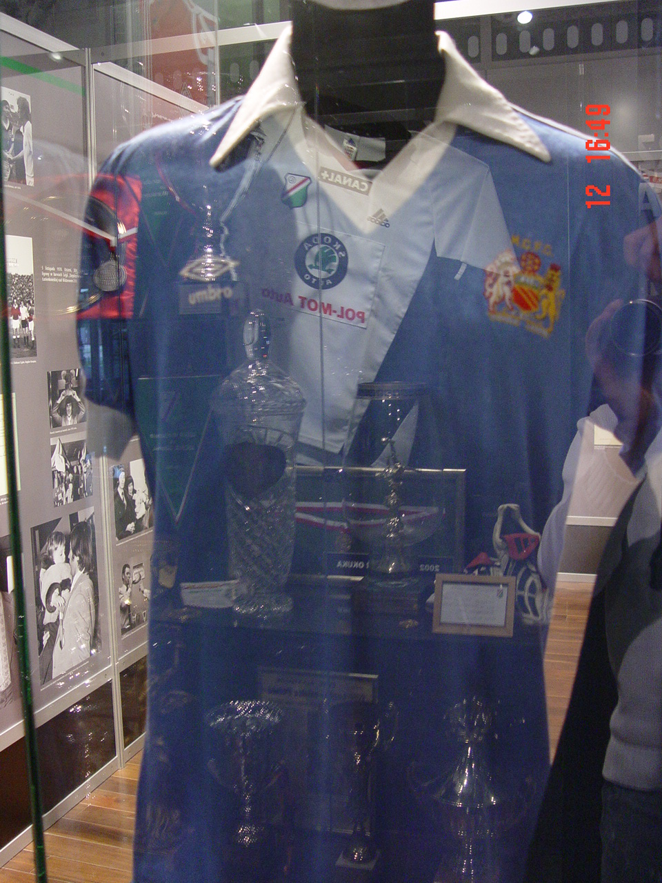 Oryginal t-shirt Kaz Deyna from Manchester City